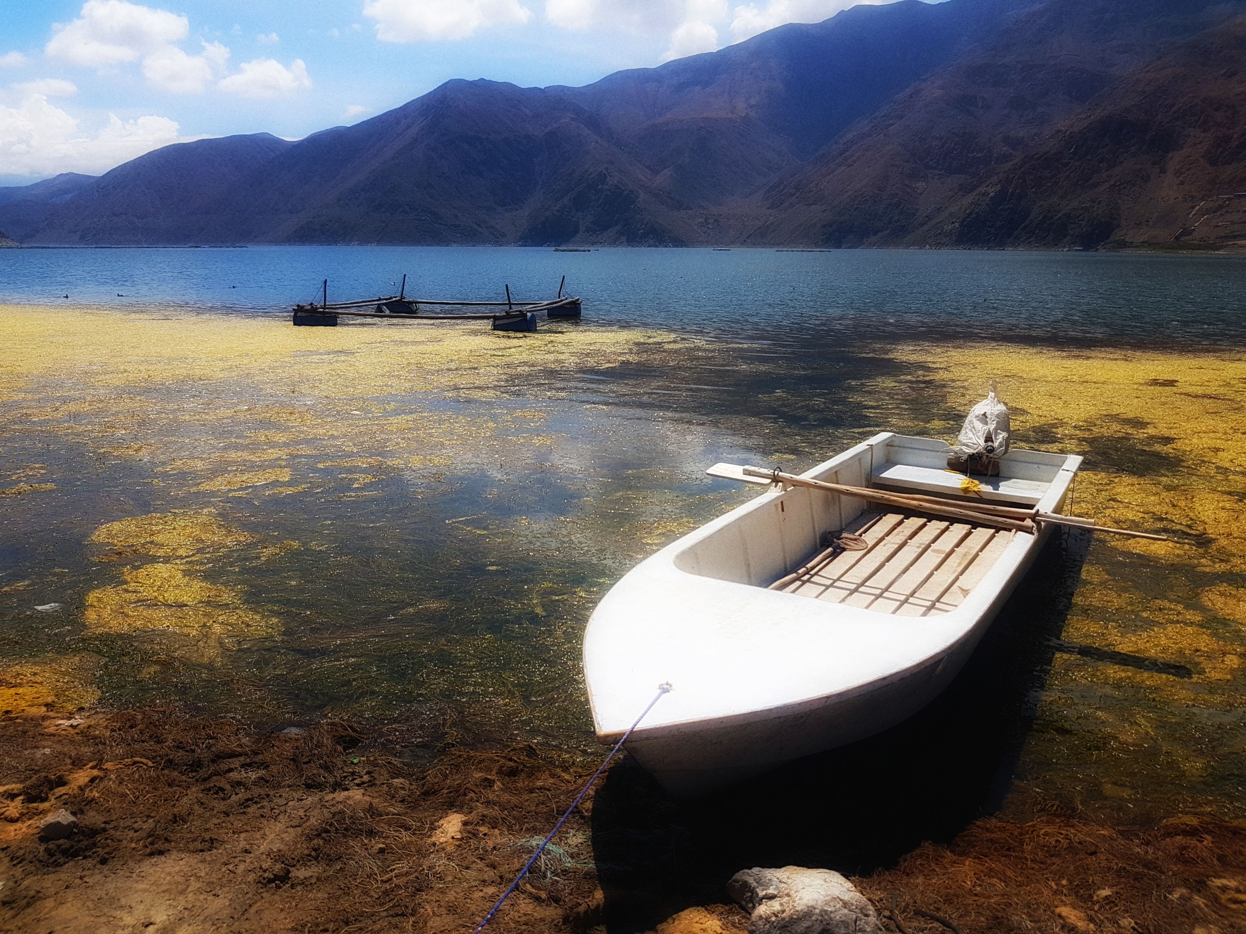 Lacustrine fishing is a common activity in Aricota